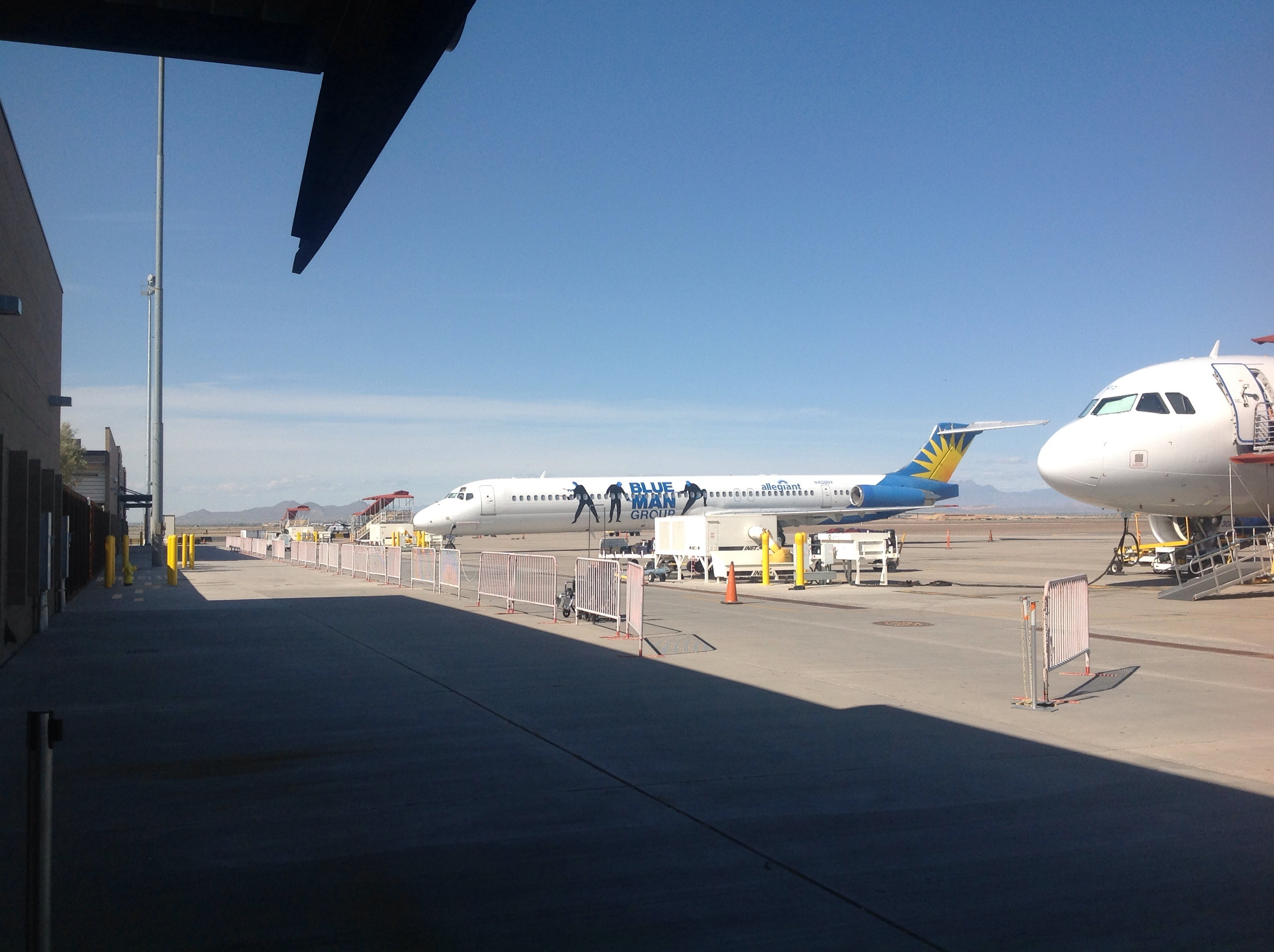 An Allegiant Air McDonnell Douglas MD-83 sitting on the tarmac at Phoenix-Mesa Gateway Airport.